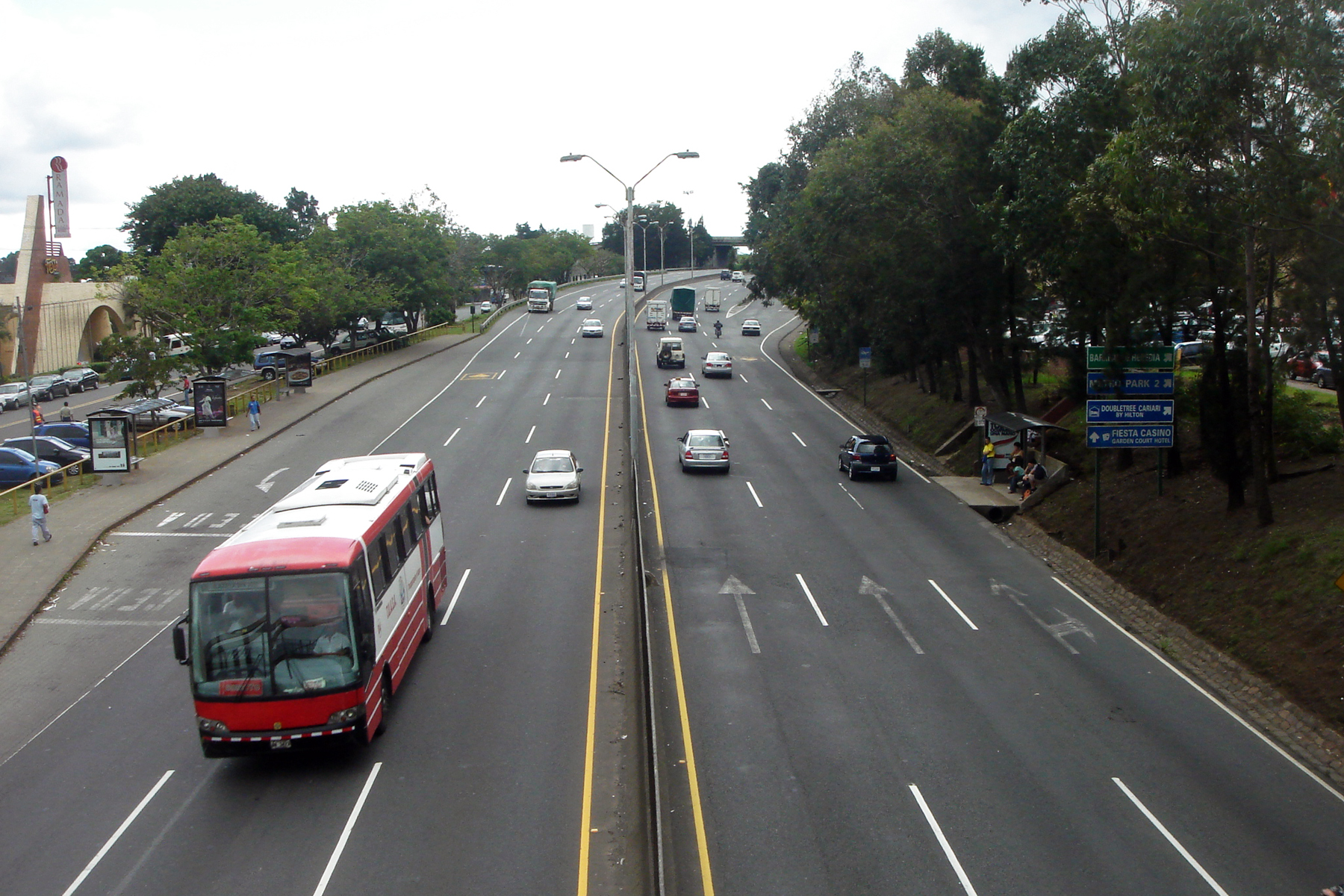 Route 1: General Cañas Freeway